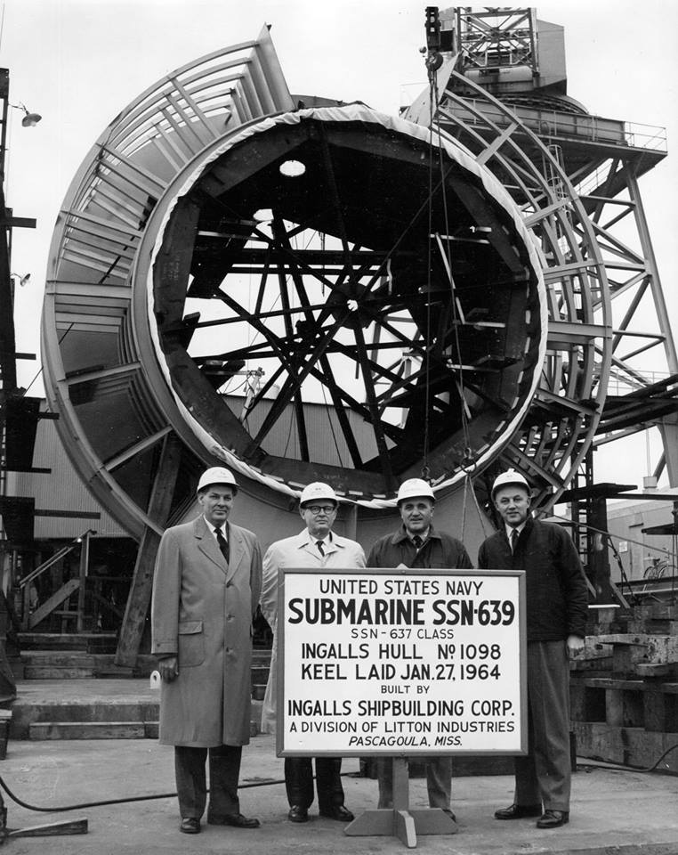 Photo of new construction